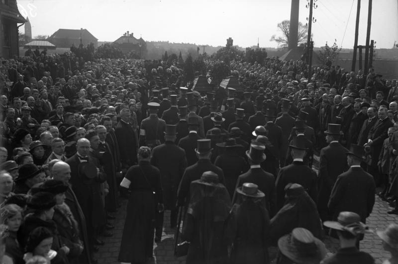 The funeral of the Essen victims took place on April 10, 1923. Der Leichenzug mit den Hinterbleibenen bewegt sich durch die spalierbildenden Arbeitermassen zum Ehrenfriedhof.